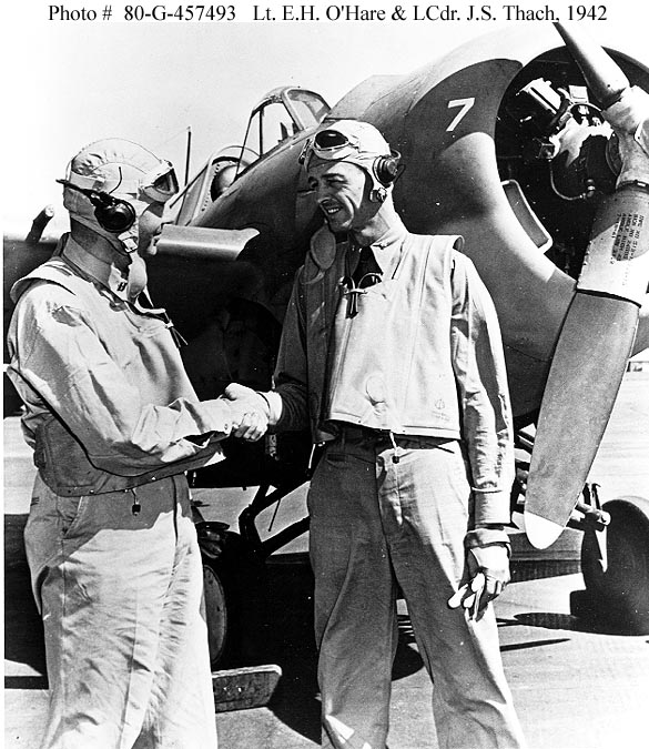 Lt. O'Hare and Lt. Cmdr. Thach in front of a Grumman F4F-3 (April 1942)